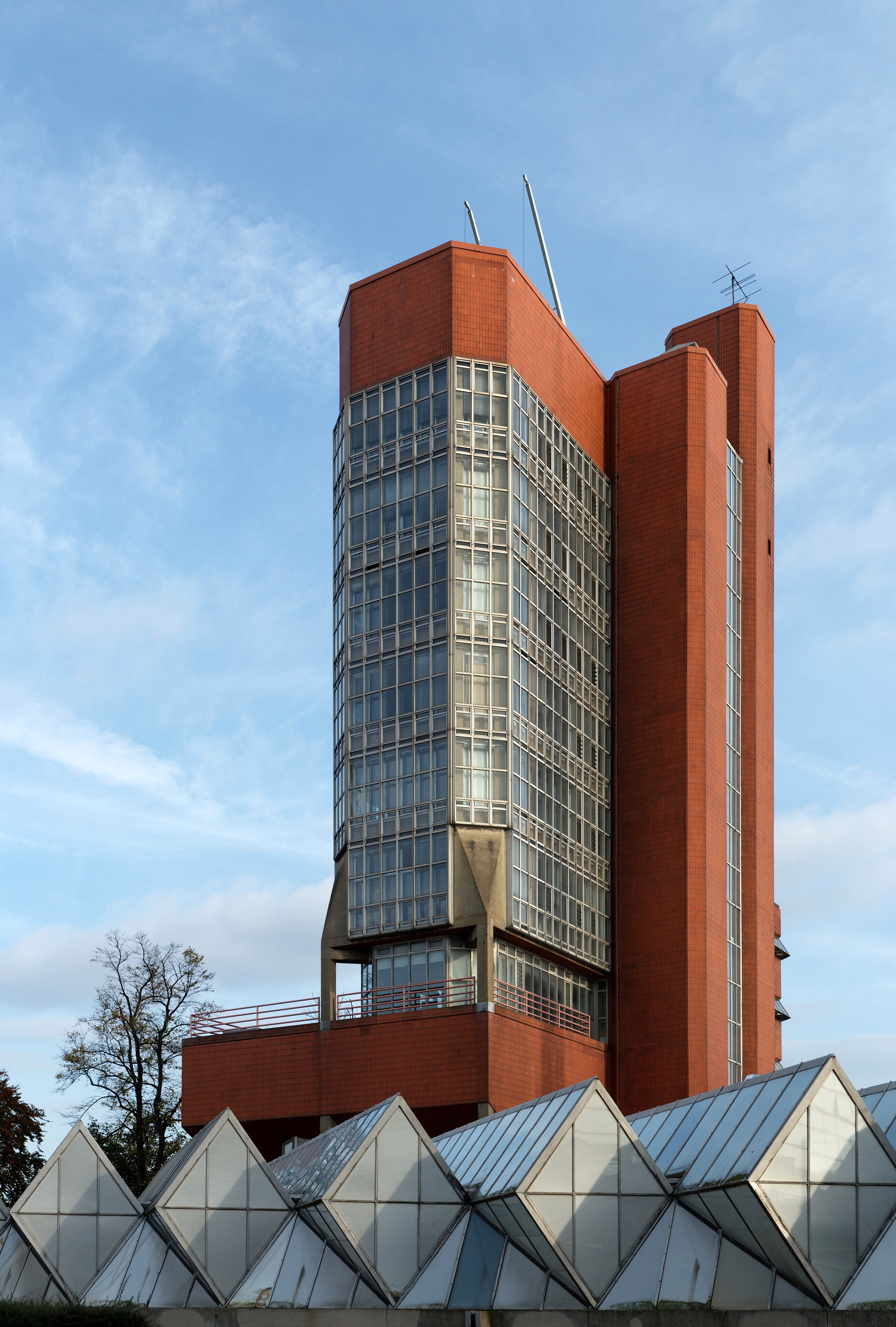 The Engineering Building, University of Leicester, designed by James Stirling and Grade II* star listed